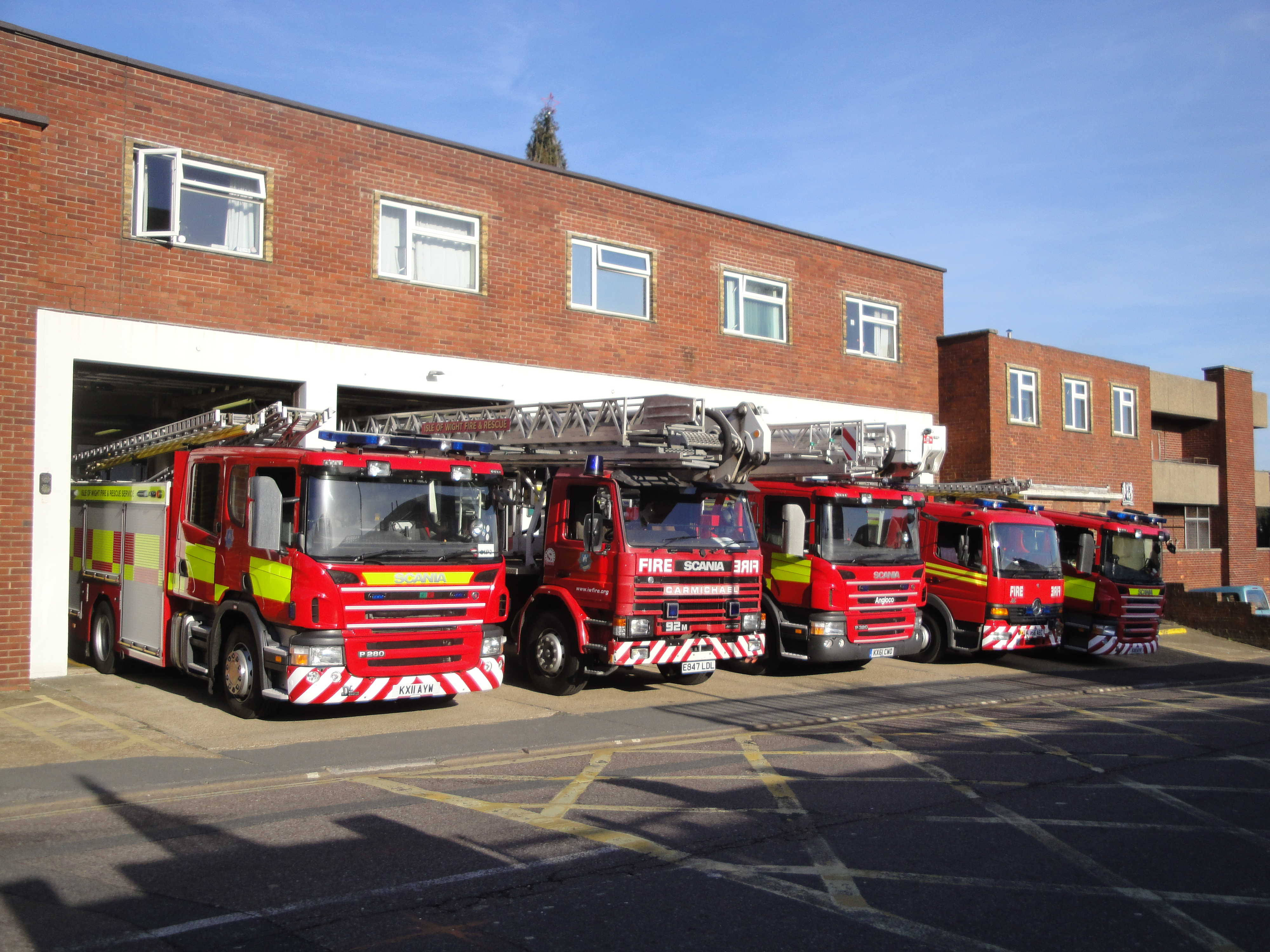 A line up of Isle of Wight Fire and Rescue Service vehicles, outside Newport fire station, Newport, Isle of Wight.